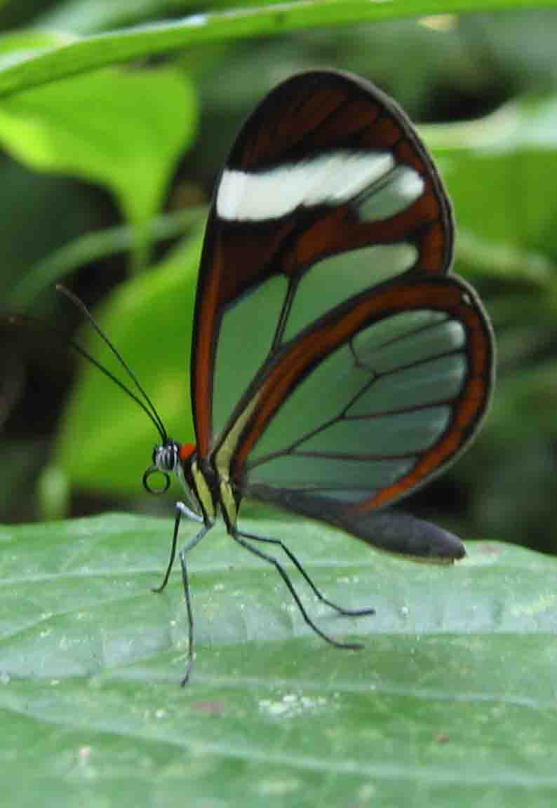 A Glasswing butterfly (Greta oto) near Santa Fé, Panamá.